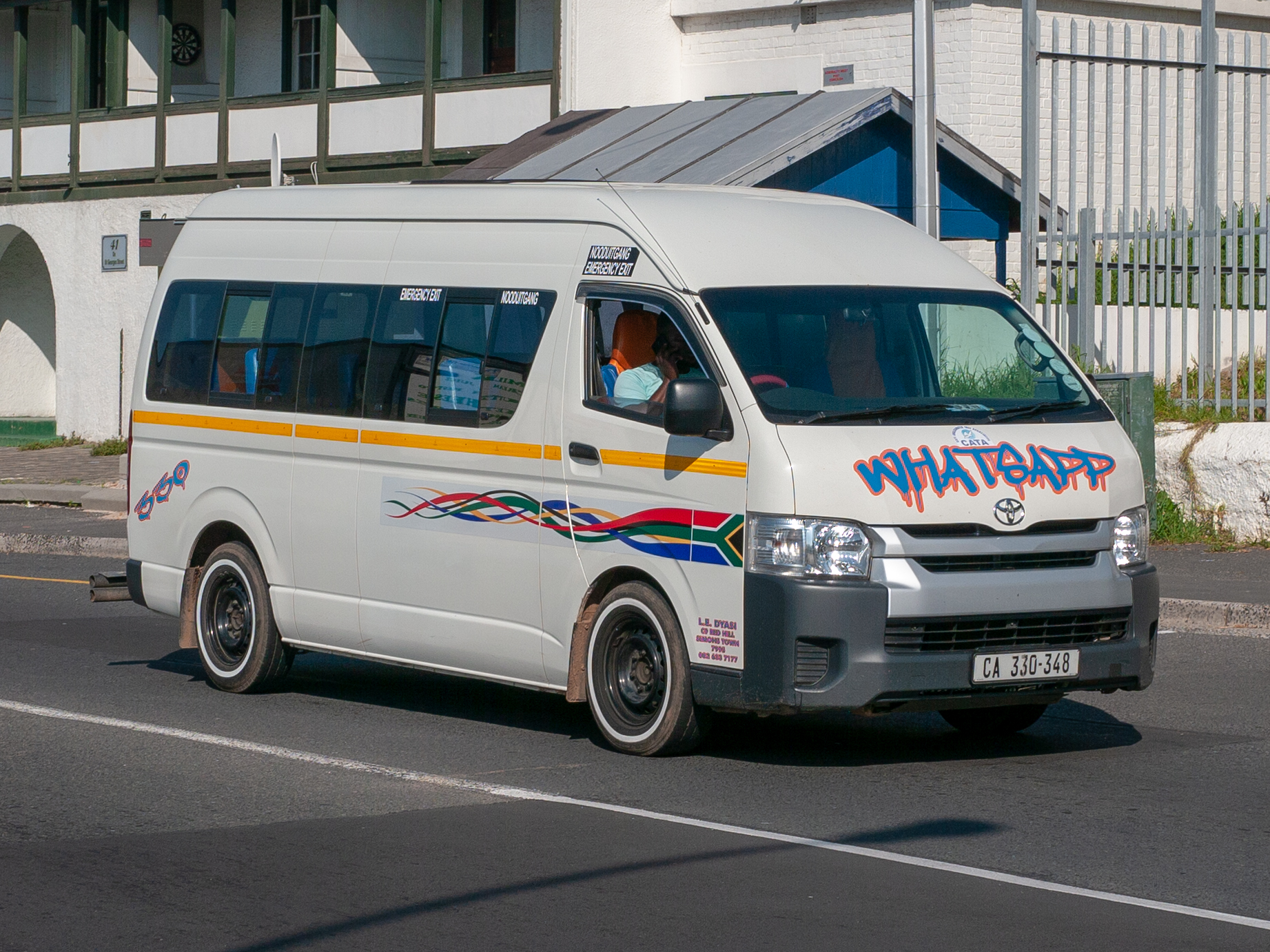 Wikimania 2018, Cape Town